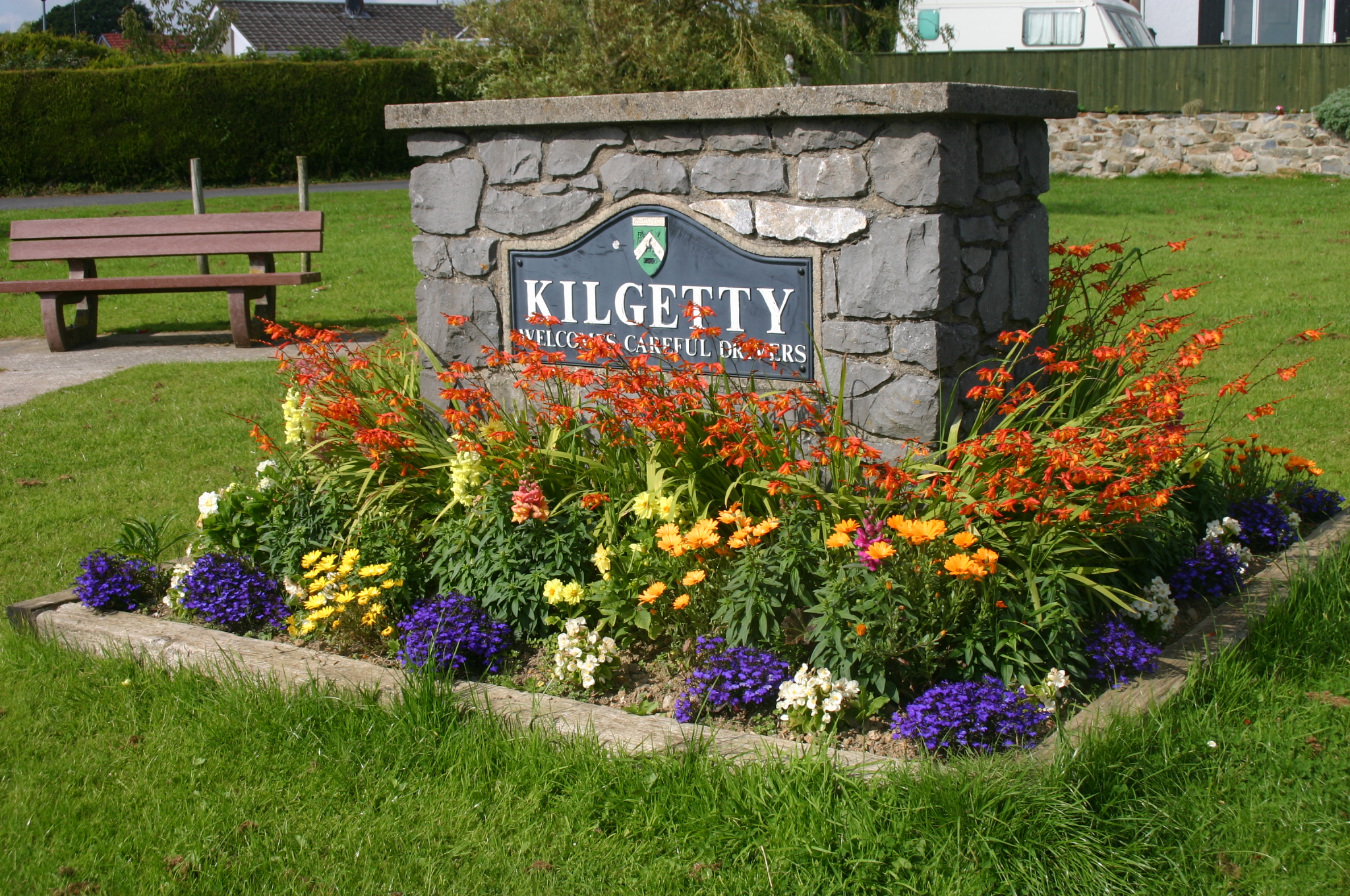 Welcome to Kilgetty